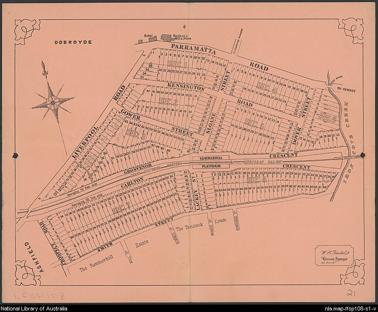 1878 subdivision plan of Summer Hill, New South Wales shows the northern half of the suburb. Image courtesy of the National Library of Australia.